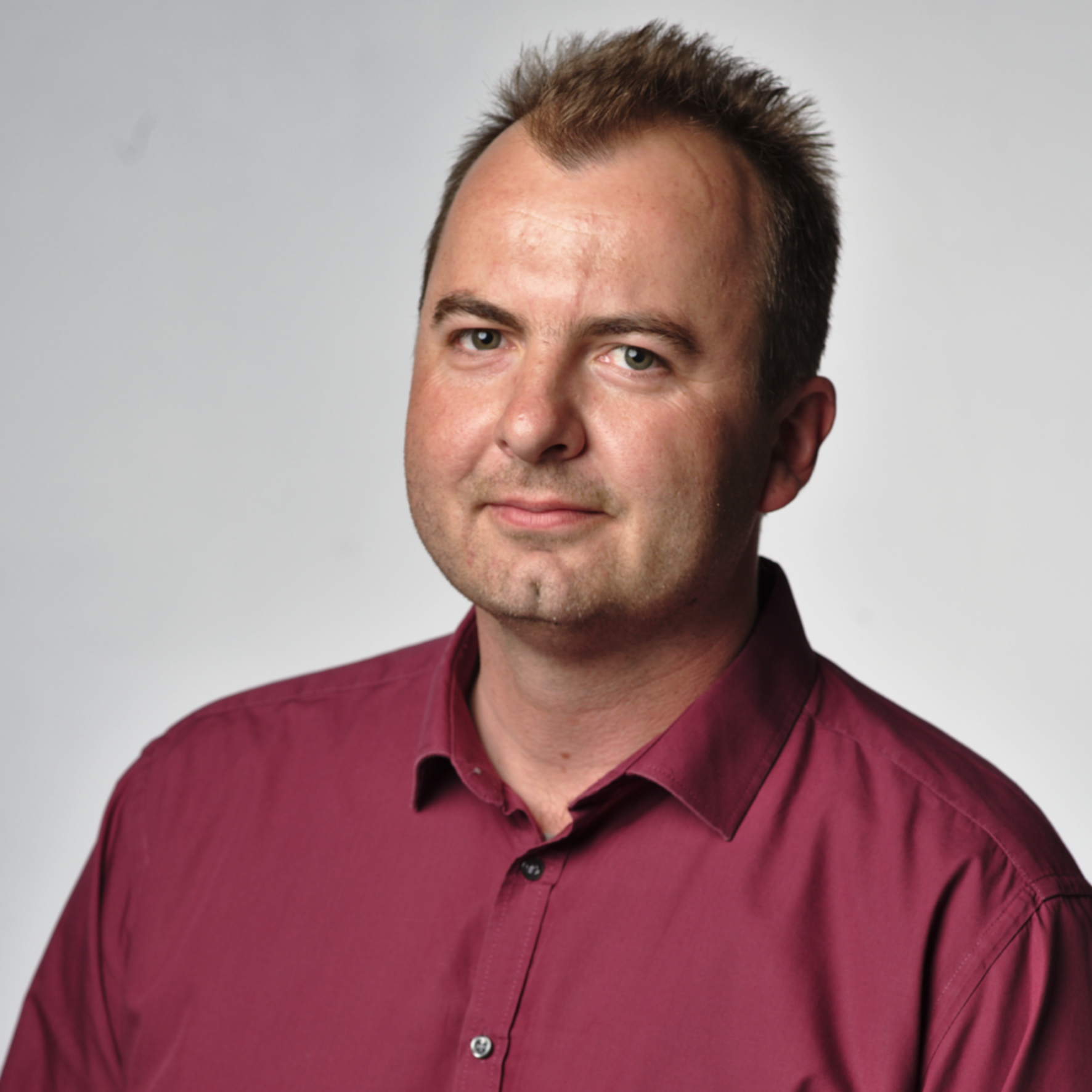 Tim Huebschle, film director and screenwriter from Namibia